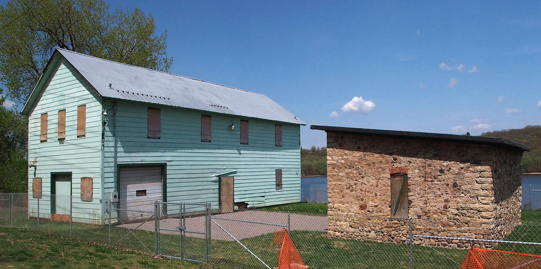 Moritz Bergstein Shoddy Mill & Warehouse, Stillwater, Minnesota, USA. Viewed from the south.